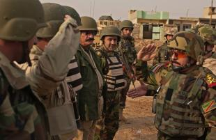 Iraqi Army Lt. Gen. Riyadh, Ninevah Providence Operations Center Commander, is greeted by Iraqi army soldiers at Combat Outpost Intisar on Feb. 27, in Mosul, Iraq.